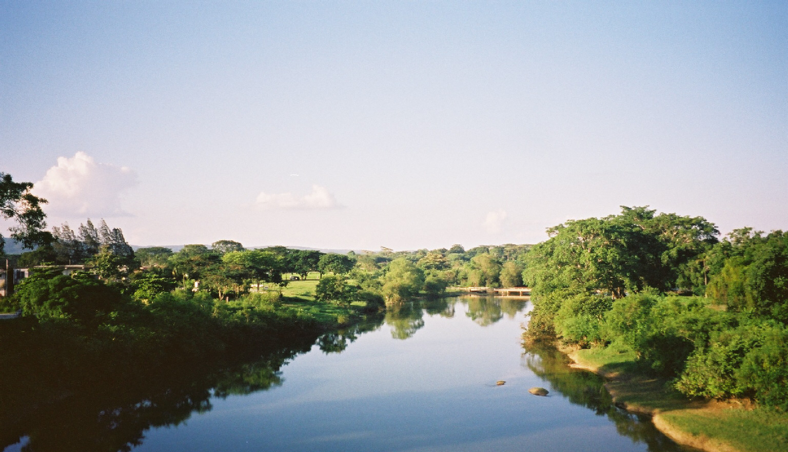 Macal River in Belize at San Ignacio in 2001-11